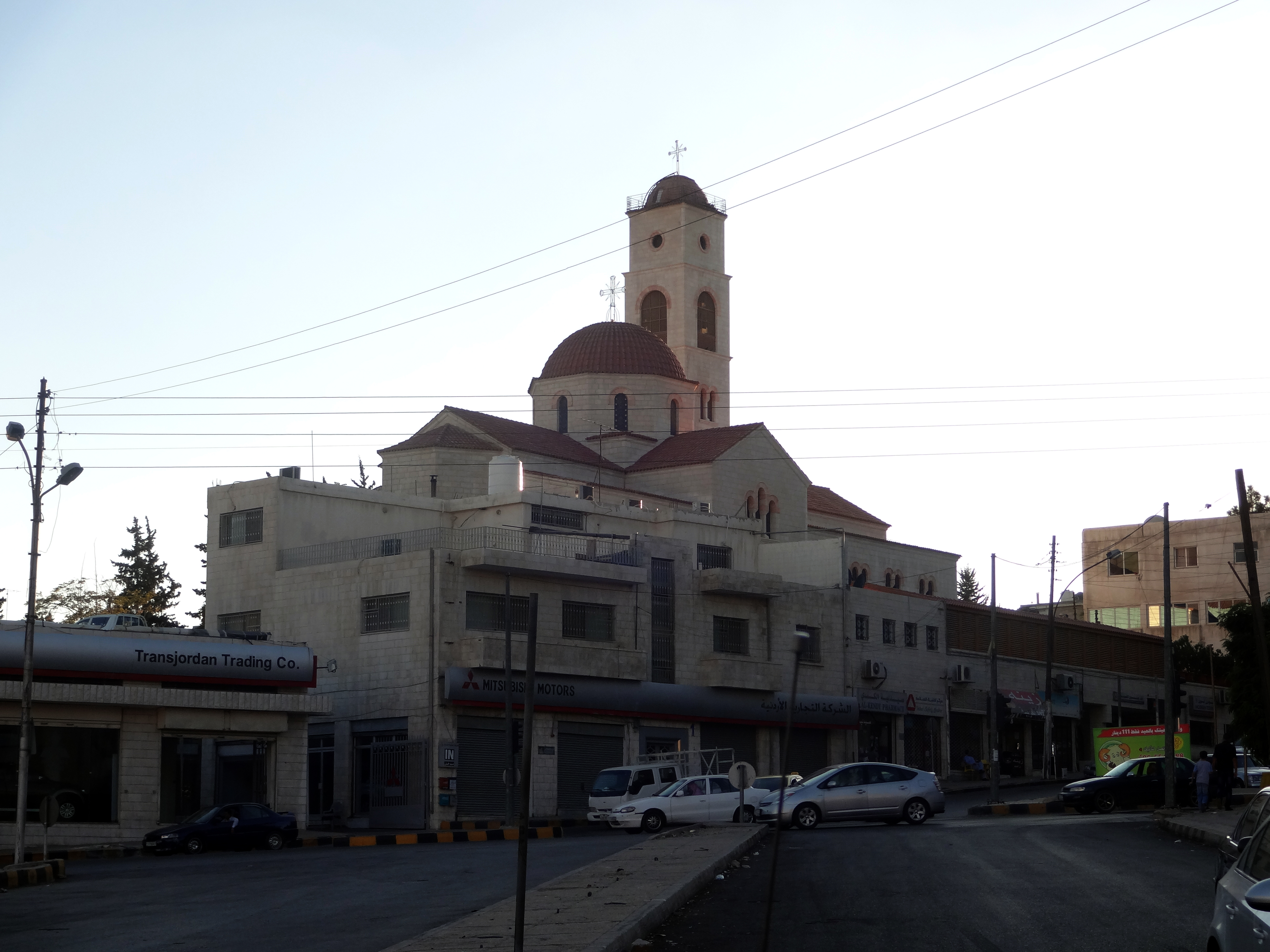 Churche , Abdali, Amman, Jordan